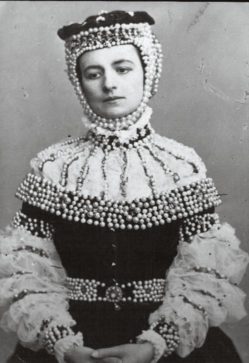 Helena Modrzejewska as Barbara Radziwiłłówna